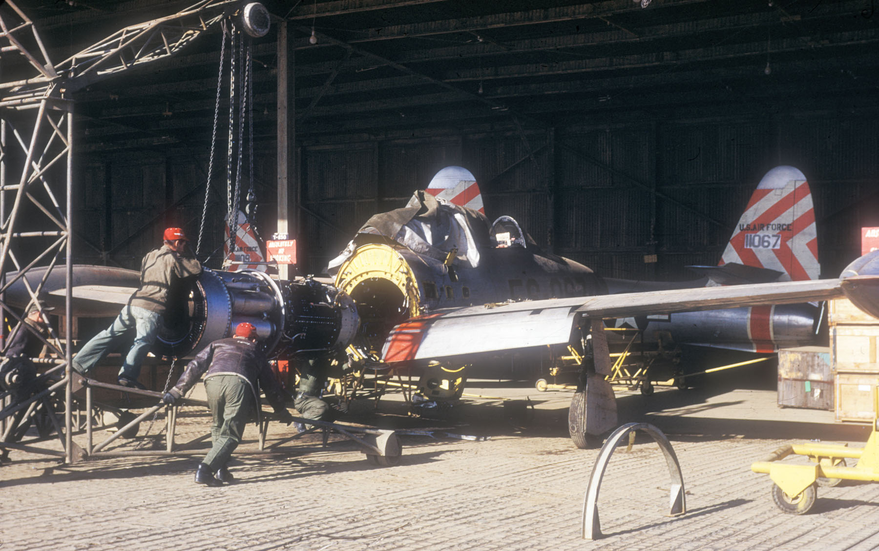 Maintenance on a U.S. Air Force Republic F-84G-10-RE Thunderjet fighter (s/n 51-1067) from the 430th Fighter-Bomber Squadron, 474th Fighter-Bomber Group, at Taegu Air Base (K-2), Korea, in February 1954. Obviously the Allison J35-A-29 turbojet had been removed. Note the aircraft's tail section in the background.